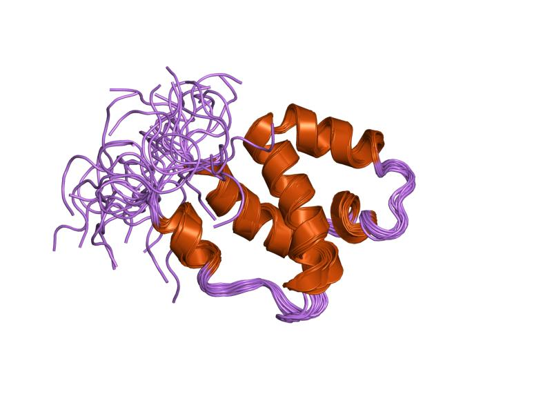 Cartoon representation of the molecular structure of protein registered with 1ug0 code.